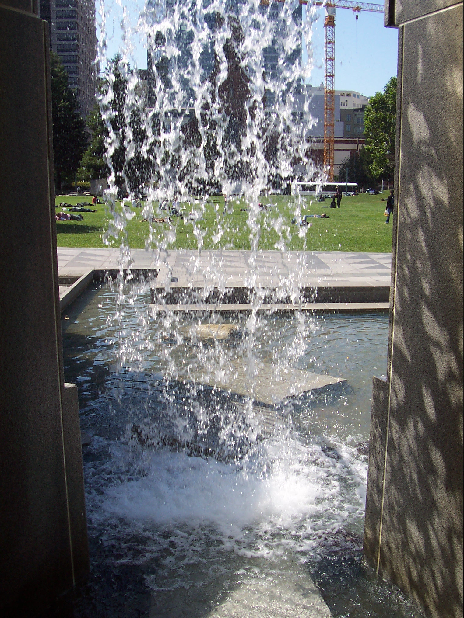 Yerba Buena Gardens, looking northwest from behind the waterfall (which is a memorial to Martin Luther King, Jr.) toward Mission Street.